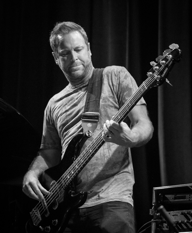 Jonny Sjo in concert with Rebekka Bakken at Victoria Teater. The concert was part of Oslo Jazzfestival and took place on 19. August 2017 in Oslo. Lineup: Rebekka Bakken (vocal), Børge Petersen-Øverleir (guitar), Jonny Sjo (bass guitar) and Rune Arnesen (drums).